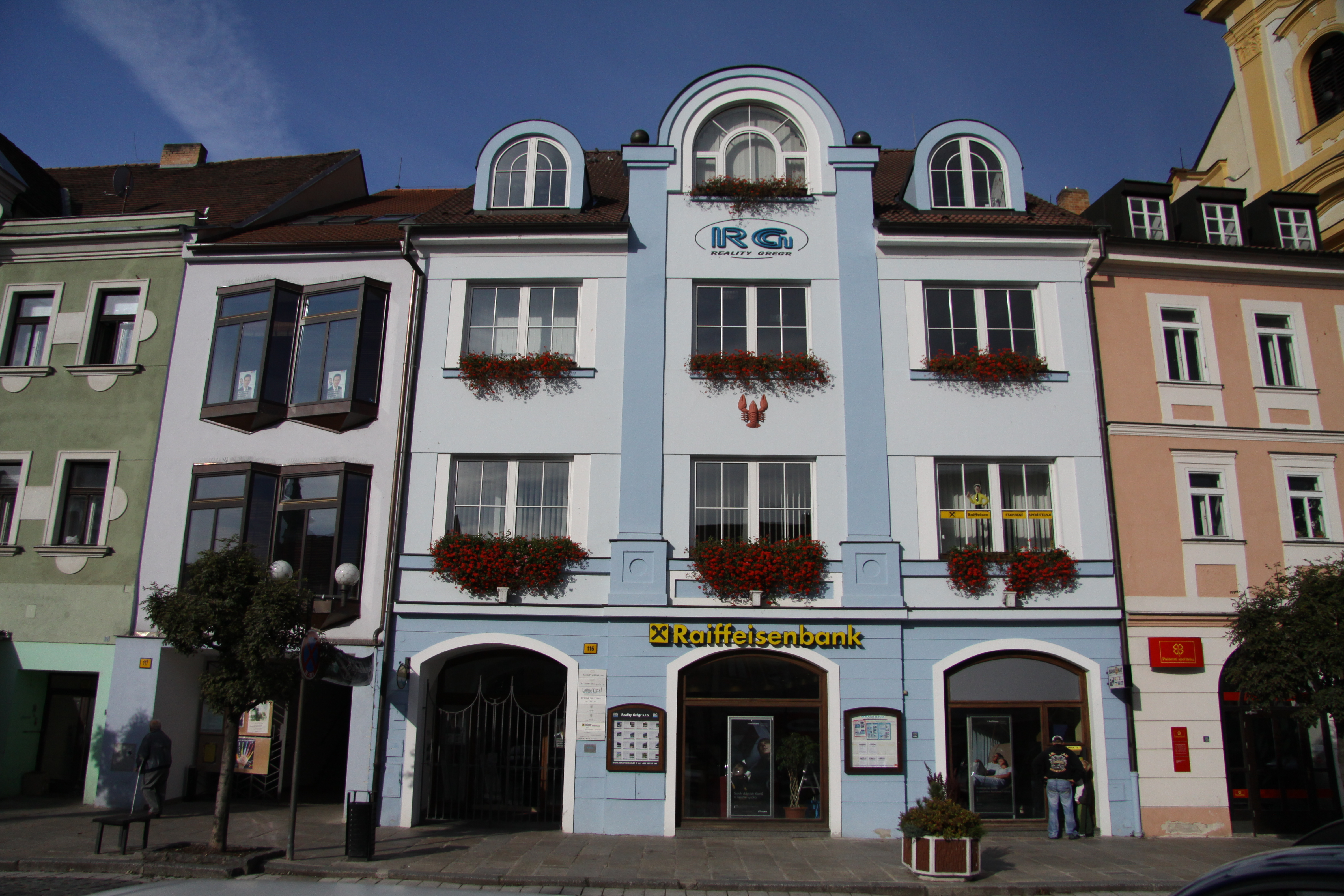 Building of Raiffeisen stavební spořitelna on Velké square in Písek, Písek District, Czech Republic